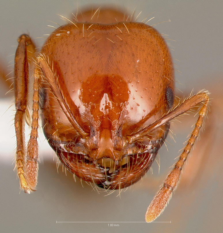 Head view of ant Solenopsis xyloni specimen casent0005806.